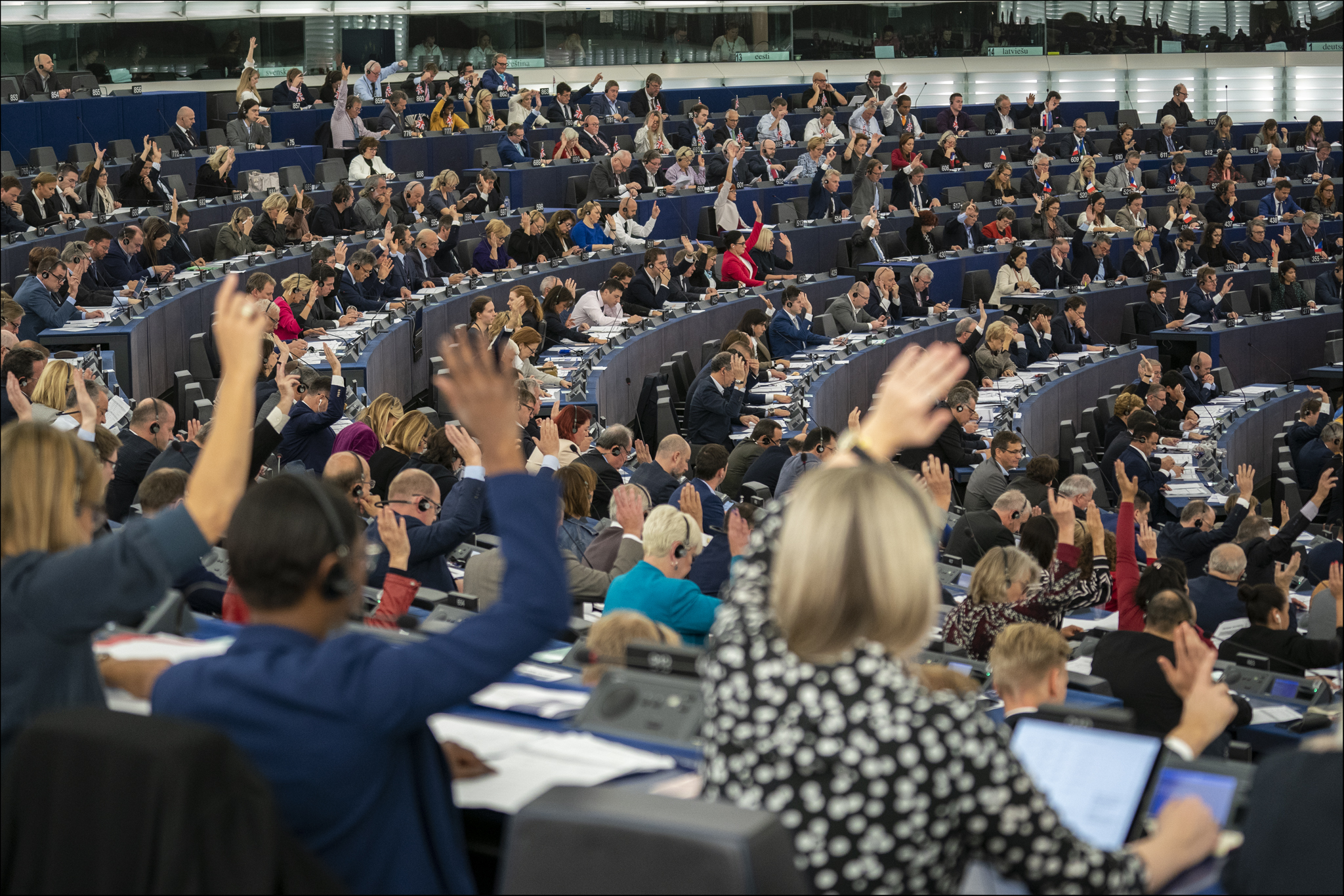 MEPs adopted their position on the 2020 EU budget on Wednesday, saying it must provide a “solid starting point to launch the new generation of EU programmes”. Parliament underlines, in its draft resolution, that the 2020 EU budget is “the last chance for the European Union to come closer to meeting the political commitments set for that period, including towards reaching the EU climate target”. It should pave the way for the new long-term 2021-2027 EU budget, the so-called multiannual financial framework (MFF). MEPs have boosted the Commission’s draft budget by adding altogether more than €2 billion to protect the climate. Furthermore, they increased the Youth Employment Initiative (YEI) and the Erasmus+ programmes and approved further support in line with Parliament’s priorities in areas such as SMEs, research, digitalisation, migration and external policy, including development and humanitarian aid. Parliament voted on a budget amounting to almost €171 billion in commitment appropriations (what the EU commits to invest in 2020 or the years beyond, as projects and programmes run over several years), representing an increase of around €2,7 billion compared to the Commission’s draft budget. It sets the payment appropriations (what will be concretely spent in 2020) at €159 billion. More to the session: These photos are free to use under Creative Commons license CC-BY-4.0 and must be credited: "CC-BY-4.0: © European Union 2019 – Source: EP". No model release form if applicable. For bigger HR files please contact: webcom-flickr(AT)